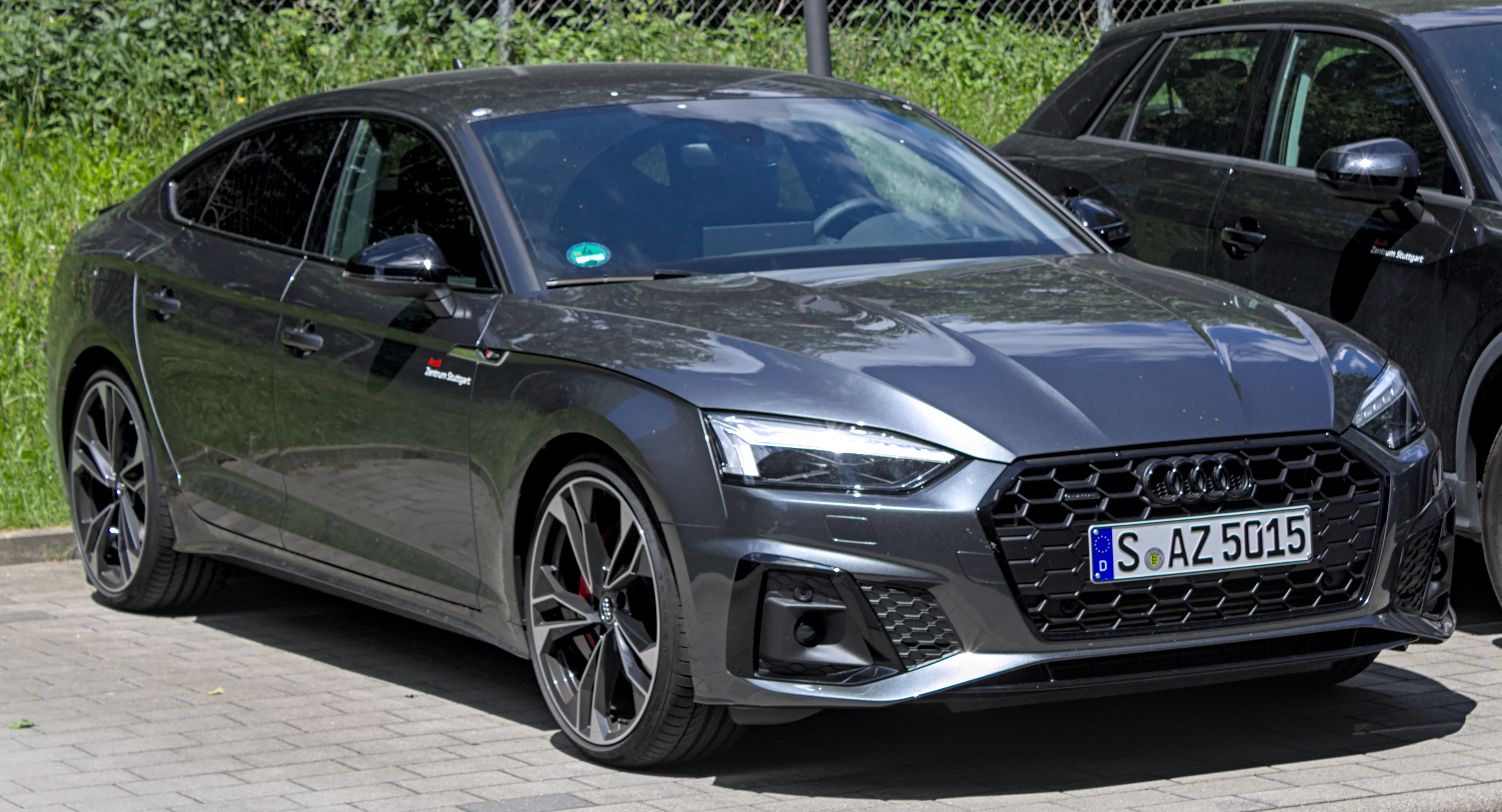 Audi_A5_Sportback_F5 in Stuttgart-Vaihingen